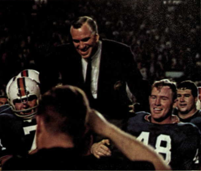 Photograph of Florida football coach Ray Graves